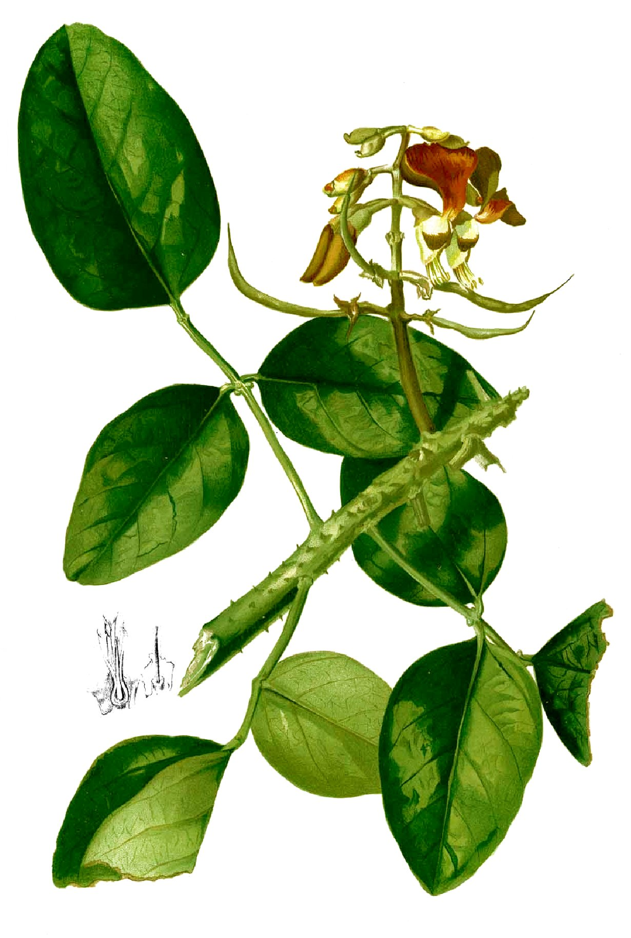 Plate from book